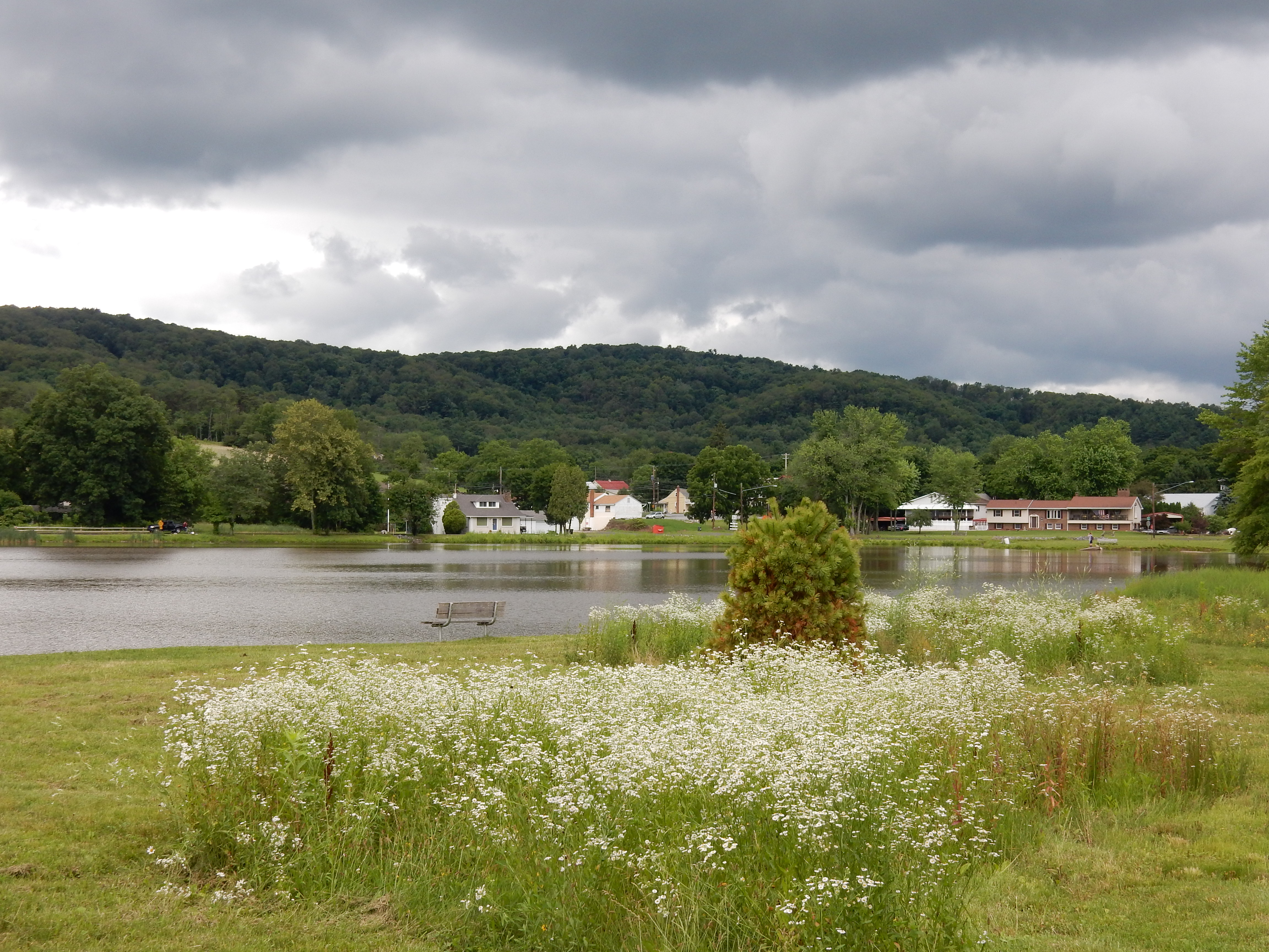 Deer Lake, Schuylkill County, Pennsylvania. NW view from east coast.